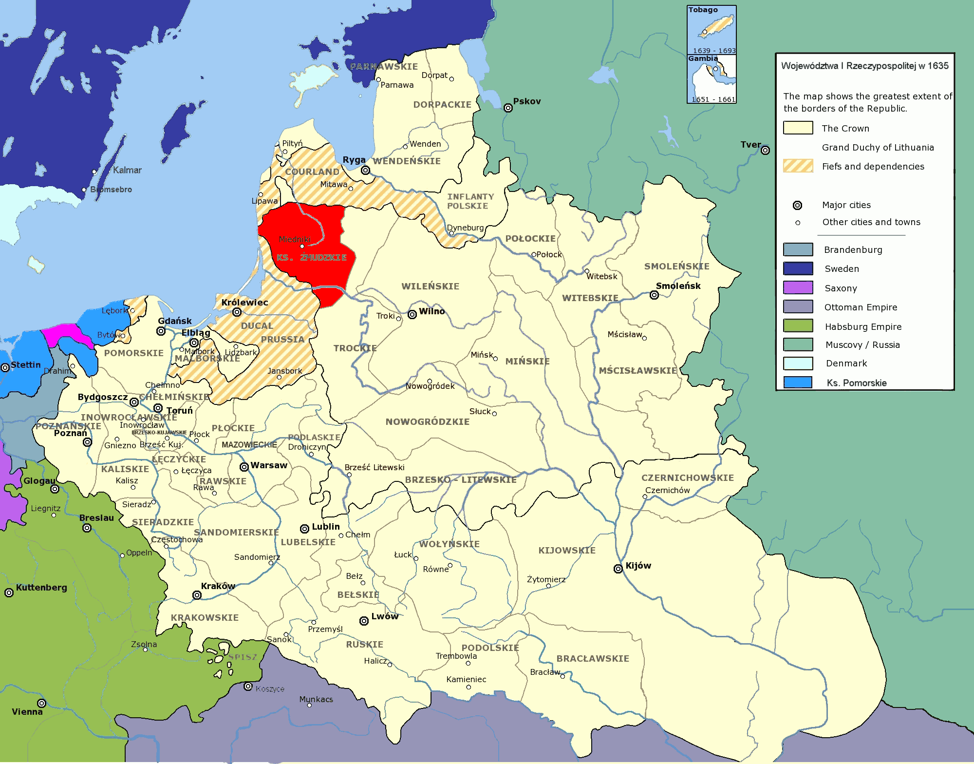 NOTE: This map is not accurate as the Duchy extended a bit south of the Neman River. Compare with Image:Eldership of Samogitia (Žemaitija) within Lithuania in the 17th century.png. Two other errors are: 1) The island of Gotland was part of Denmark until 1645. 2) The town of Brømsebro is incorrectly placed. It is located on the eastern extremity of the former border between Denmark and Sweden. Duchy of Samogitia in 1635 authors user:halibutt and user:Mathiasrex